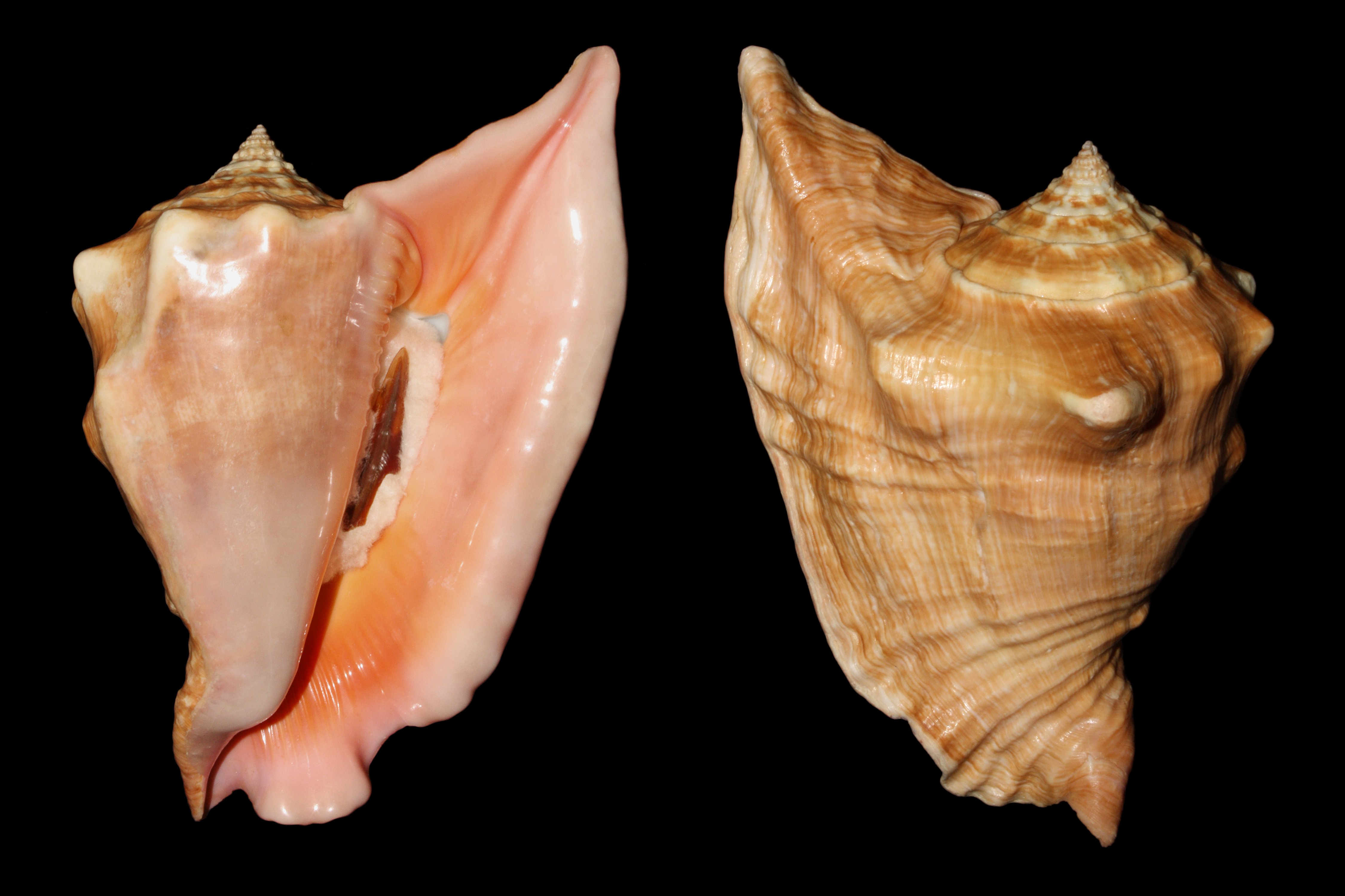 Lobatus peruvianus (synonym :Strombus peruvianus) (Swainson, 1823). Pedro Gonzalez Island, Panama. 15 cm. With operculum.